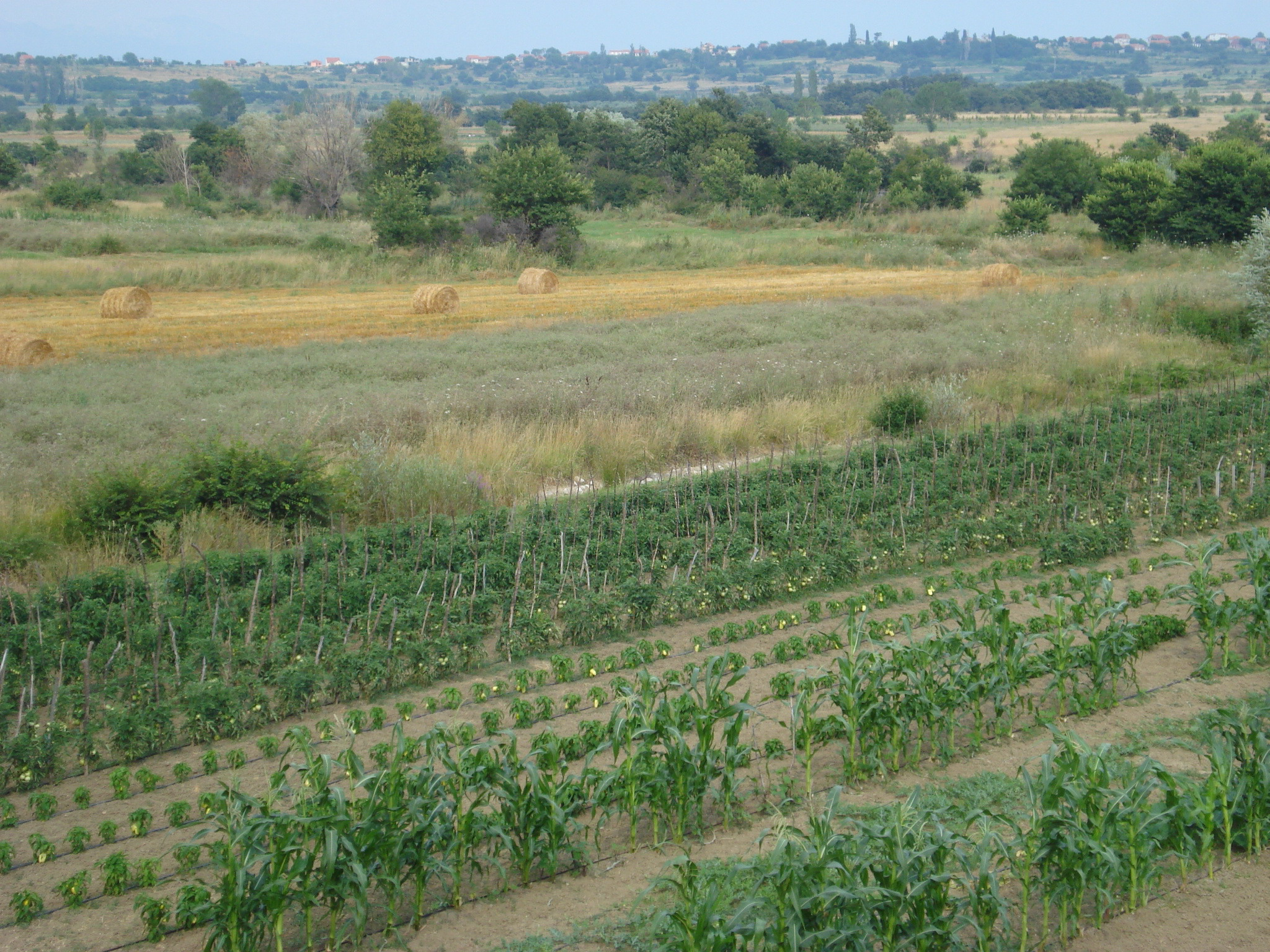 Ravni kotari, geographical region in the northern part of the province of Dalmatia (Republic of Croatia) - agricultural area at Posedarje villageHrvatski: Ravni kotari, zemljopisni kraj u sjevernoj Dalmaciji (Republika Hrvatska) - poljoprivredno zemljište blizu Posedarja